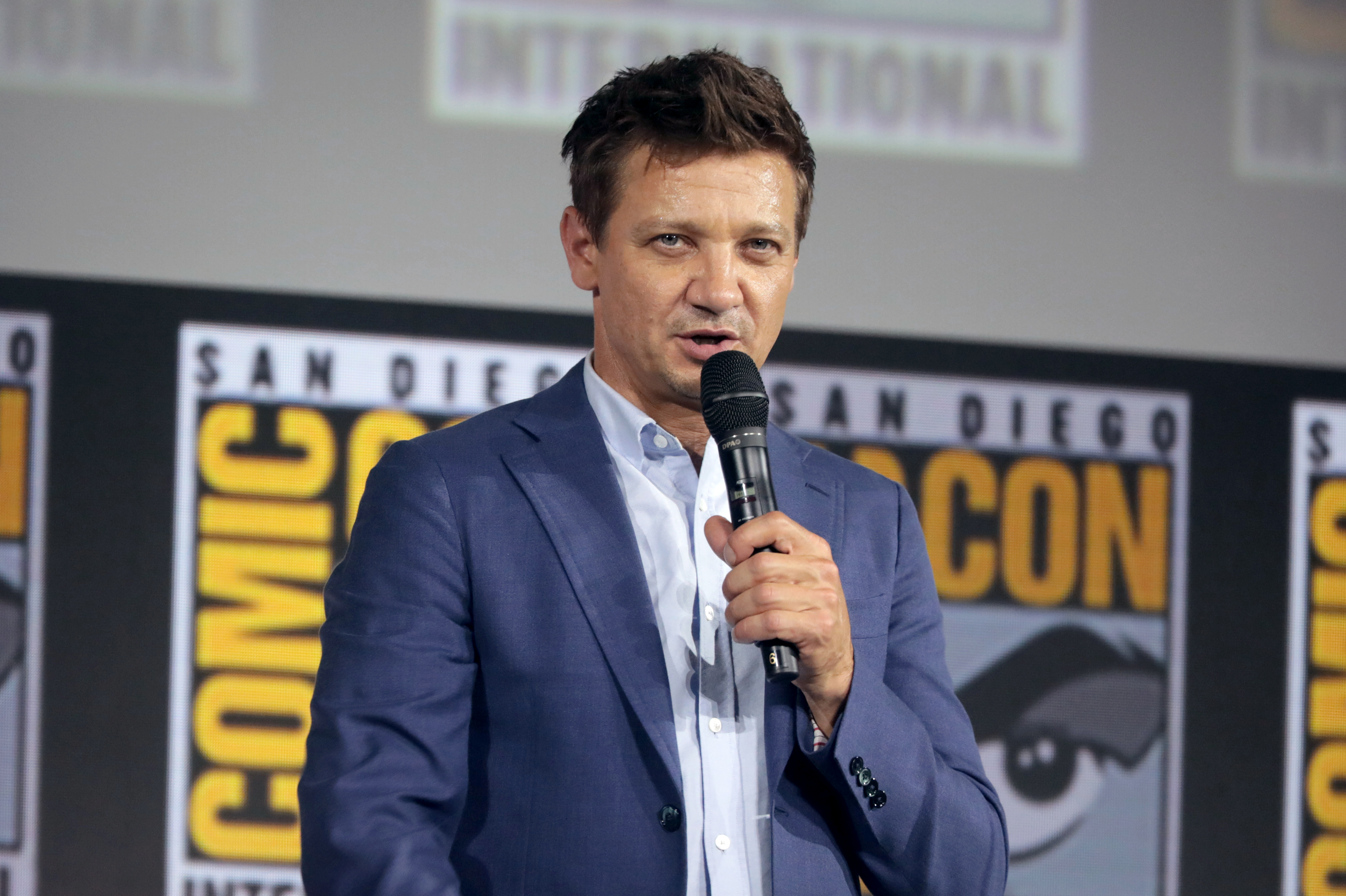 Jeremy Renner speaking at the 2019 San Diego Comic Con International, for "Hawkeye", at the San Diego Convention Center in San Diego, California.